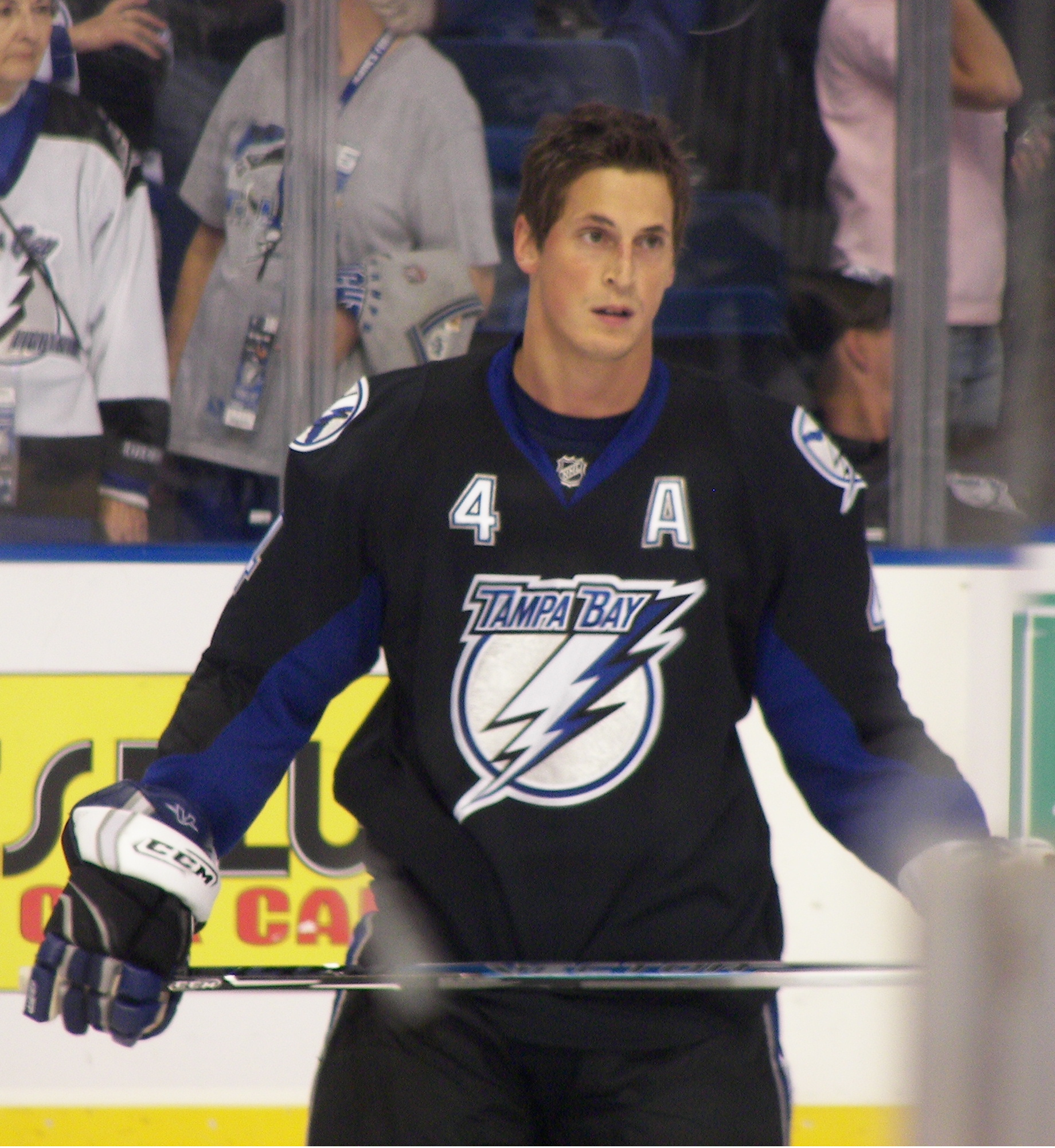 Vincent Lecavalier of the Tampa Bay Lightning during a Lightning vs. Atlanta Thrashers ice hockey game at the St. Pete Times Forum in Tampa, Florida on October 20, 2007.